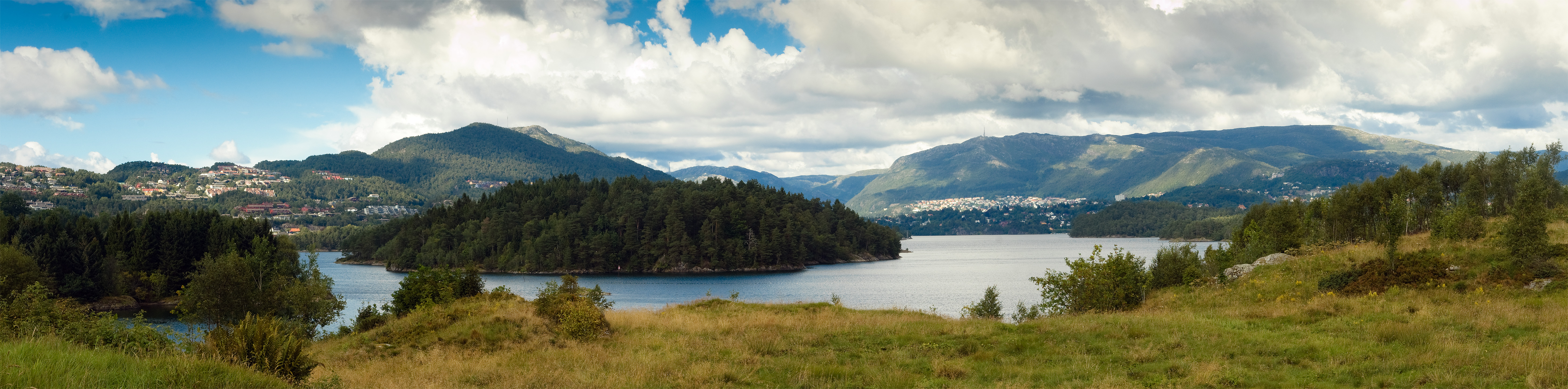 The bay of Nordåsvannet in Bergen, Norway. Looking towards the more central parts of the city from the neighbourhood of Sandsli in Ytrebygda. The mountains are, from left to right, Løvstakken, Fløyfjellet/Rundemanen/Blåmanen (barely visible), and Ulriken. Handheld panorama.